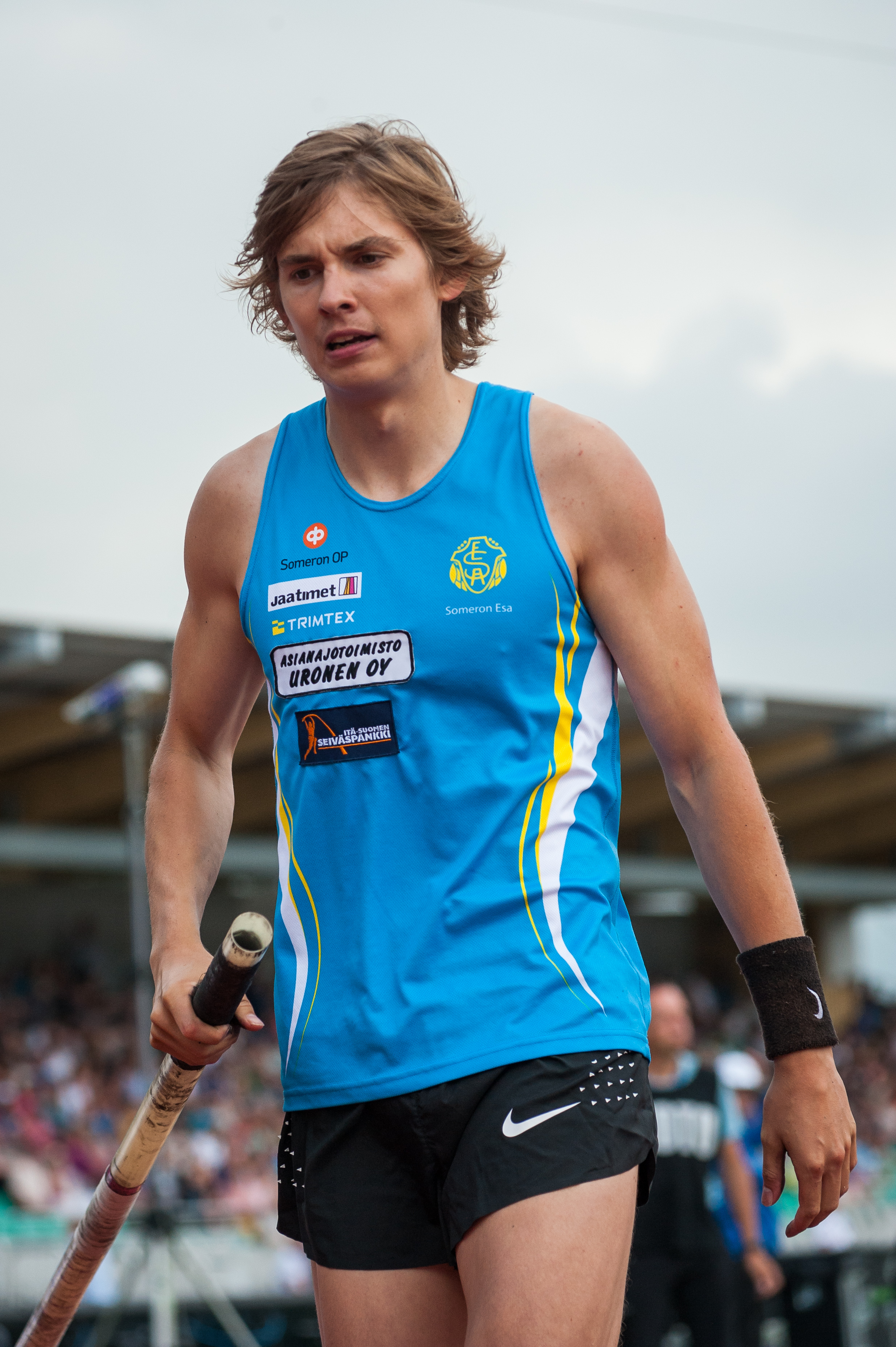 Men's pole vault competition at the 2018 Kalevan Kisat, the Finnish championships in athletics, in Jyväskylä, Finland.